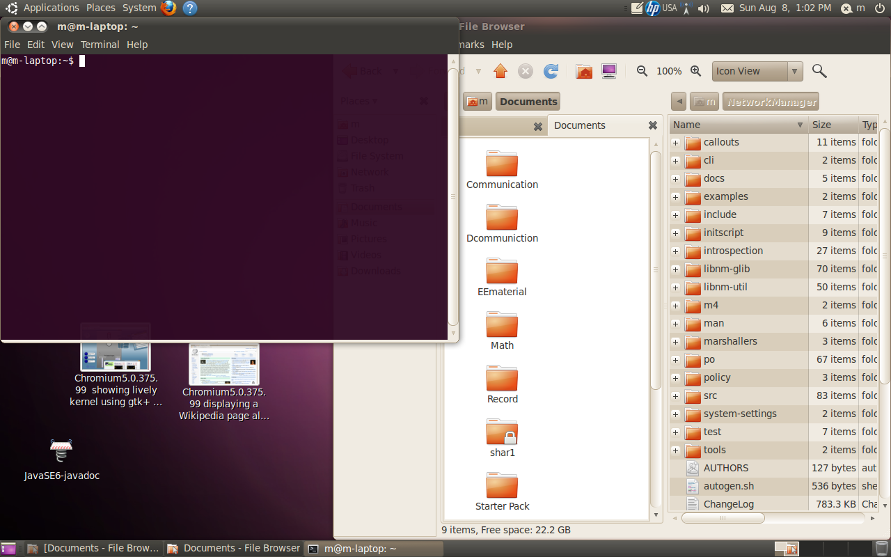 GNOME 2.30 on Ubuntu Linux 10.04 showing split Window and tabs in Nautilus (file manager) ,window transparency and thumbnail preview on desktop